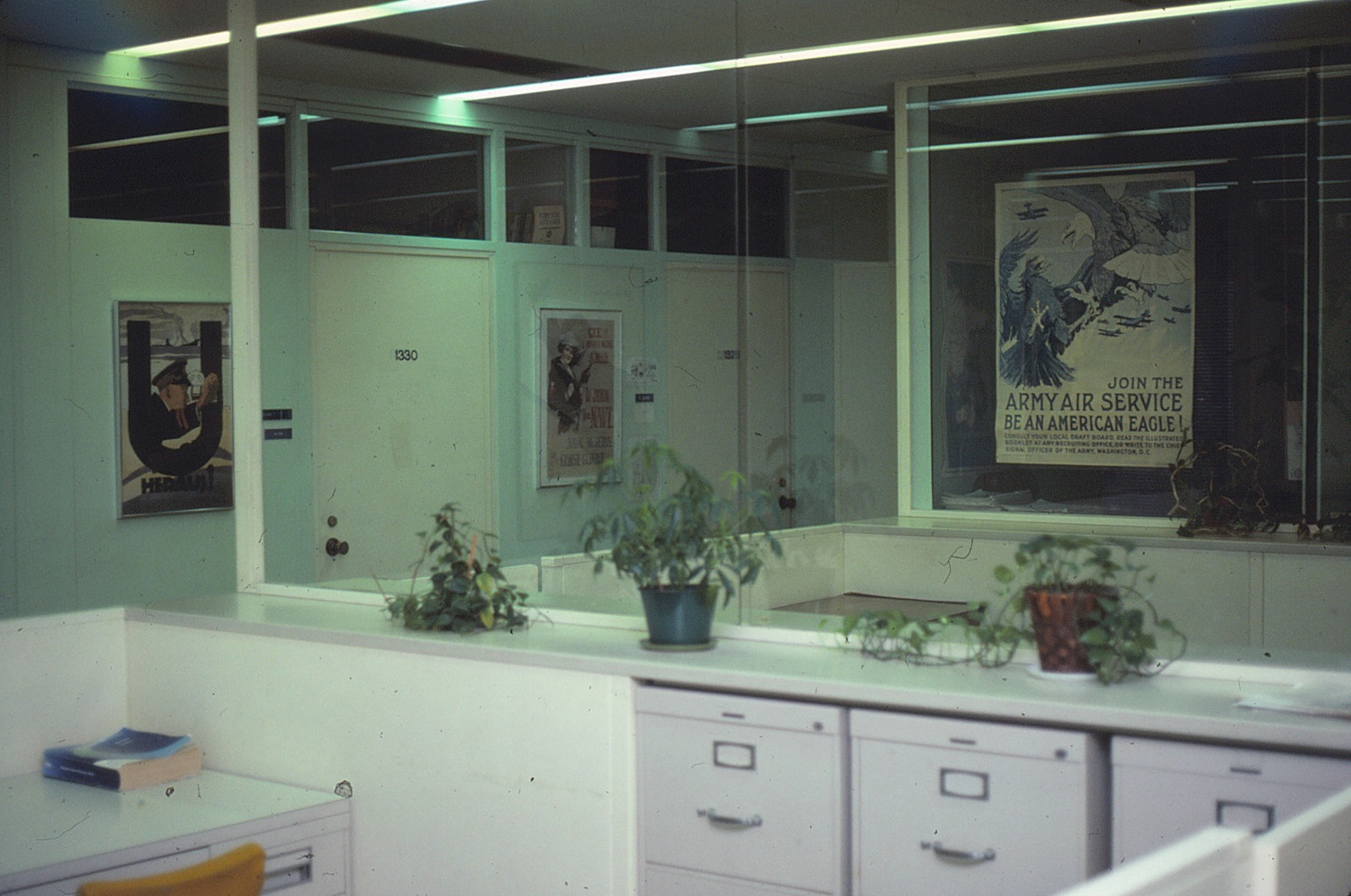 Central area of the Institute of War and Peace Studies, on the 13th floor of the International Affairs Building. Visible are reproductions of several World War I era recruitment and propaganda posters. Scan of a Kodachrome slide stamped June 1985 and taken by Warner R. Schilling. Image subsequently inherited by the uploader.